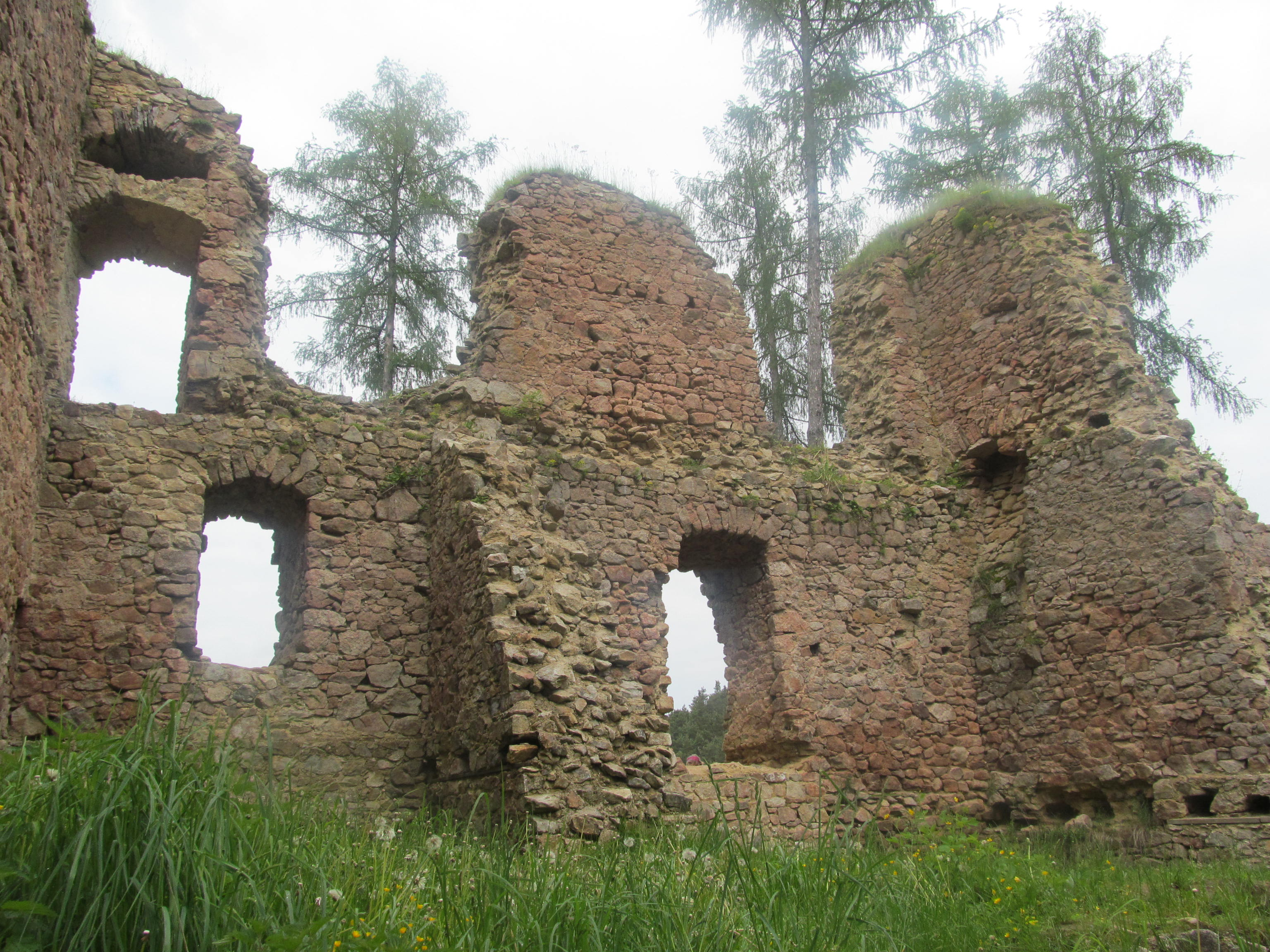 Pořešín Castle: Interior of the Palaste